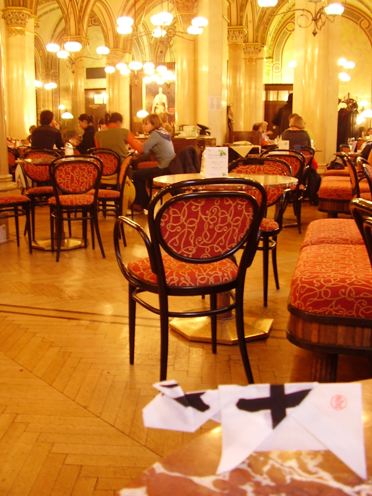 Interior of Café Central in Vienna.